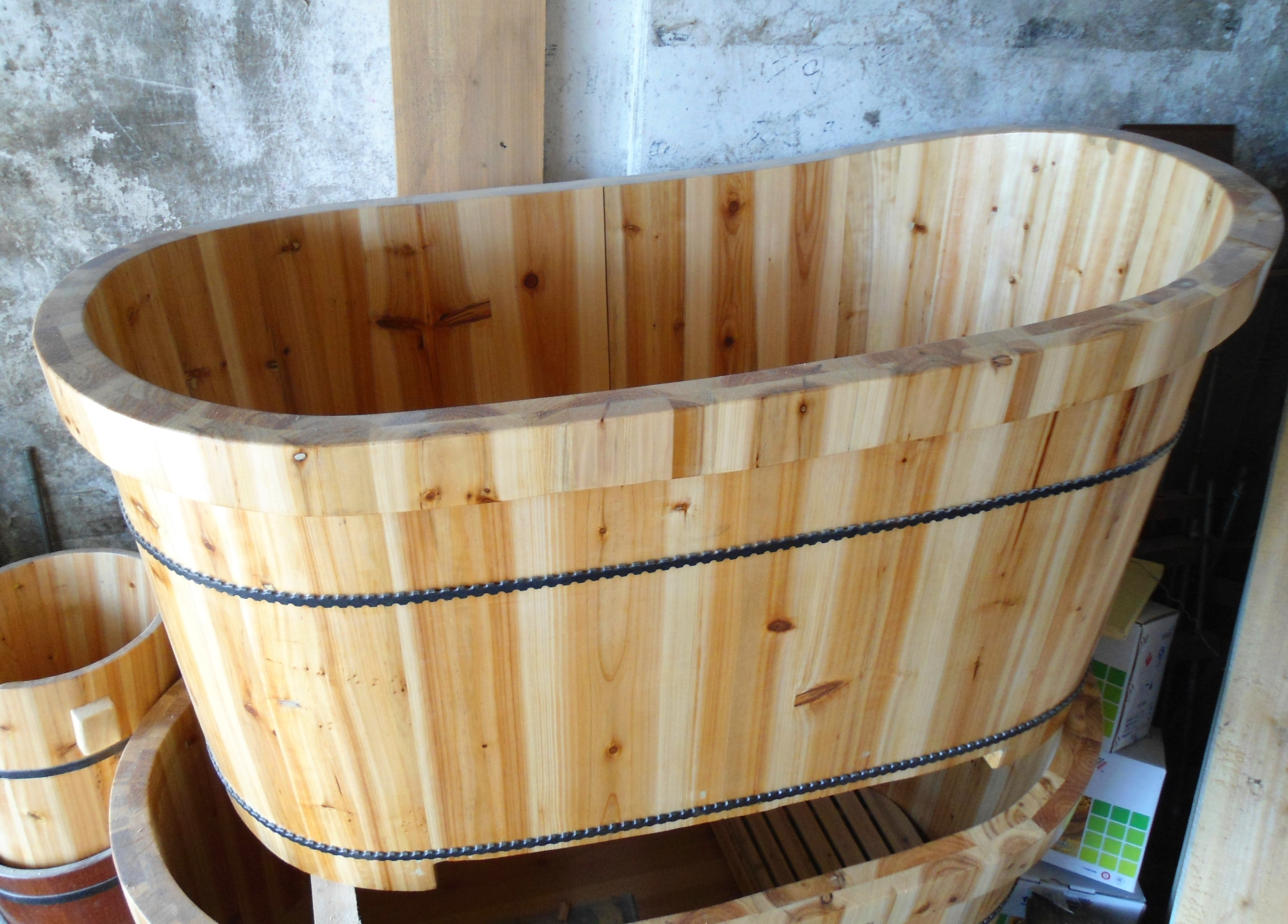 Traditional Chinese style wooden bathtubs, finished and ready for sale at 1,000 RMB in Haikou City, Hainan, China.